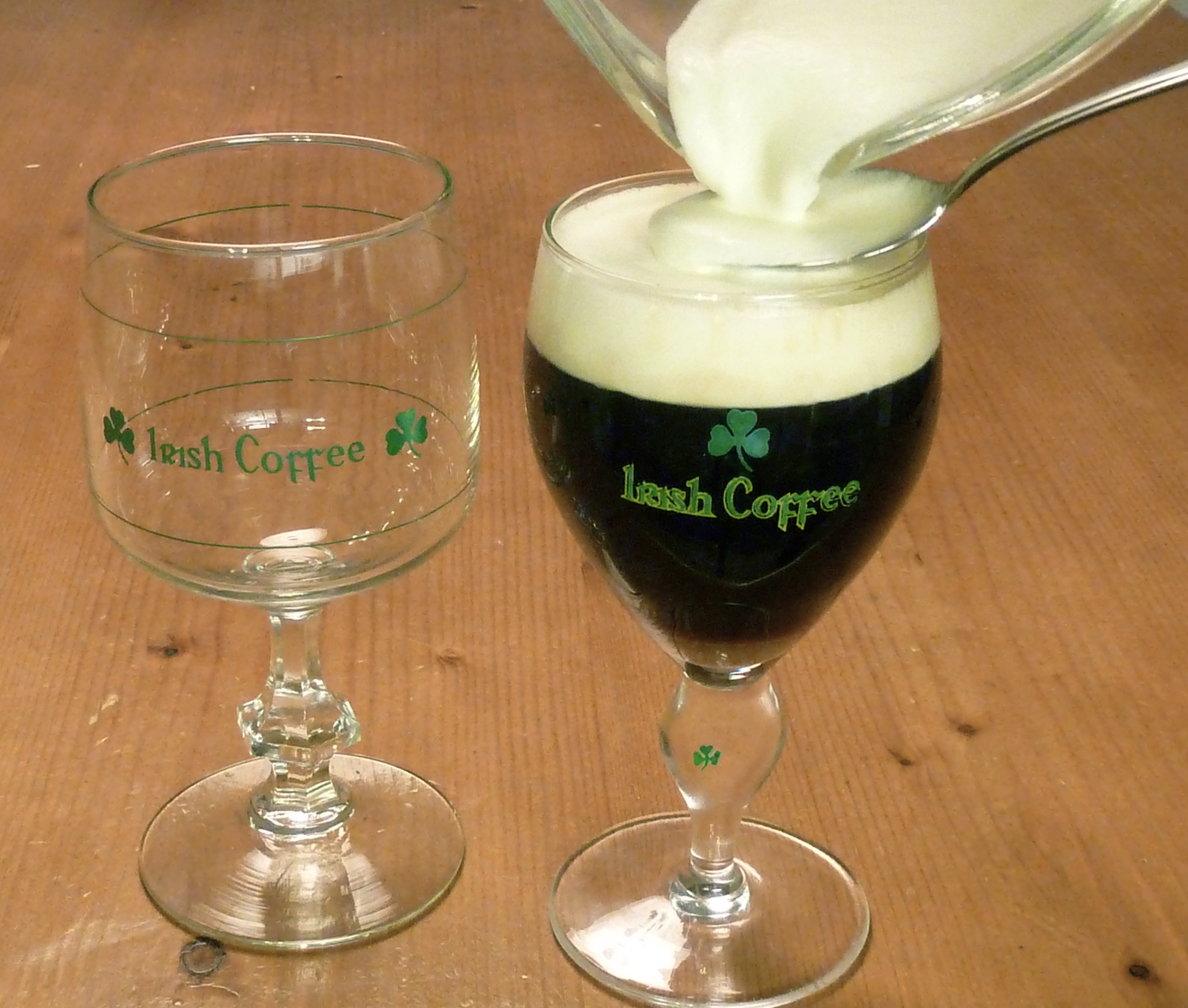 Irish Coffee glass